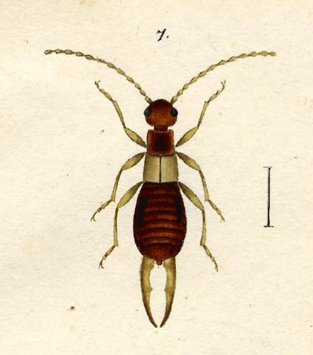 Drawing with the original description of the Earwig species Apterygida media by Johann Jacob Hagenbach (1822), depicting an adult male specimen.